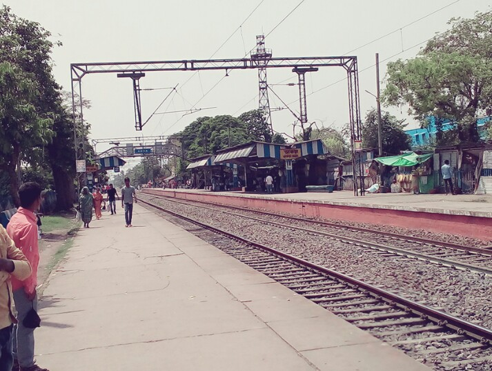 Akra Railway Station